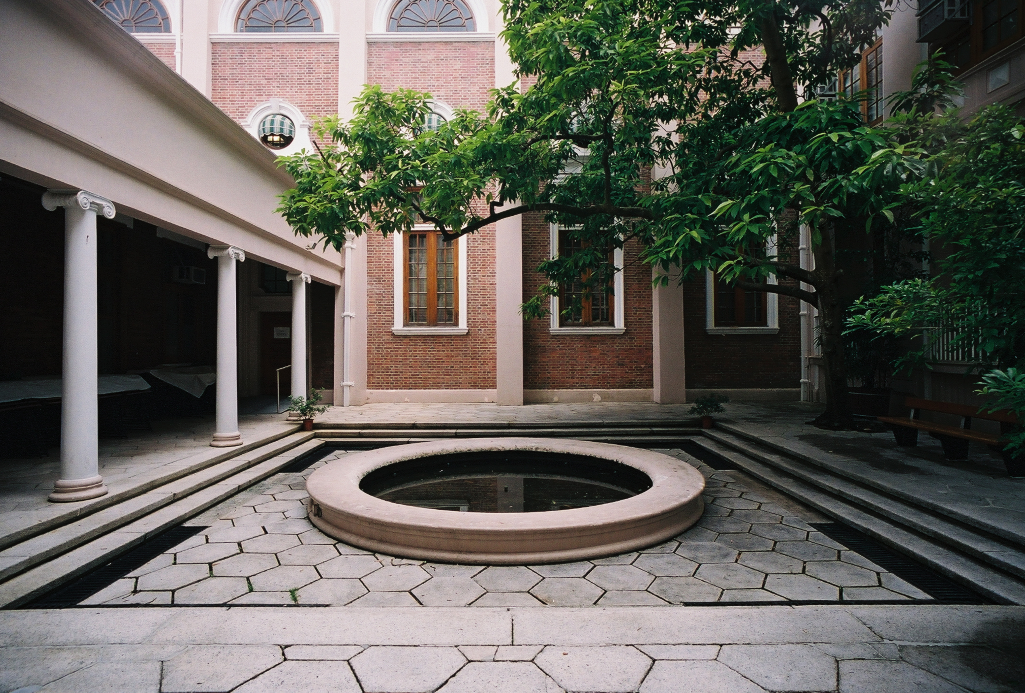 As title.